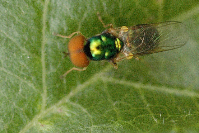 Picture taken in Commanster, Belgian High Ardennes . Species: male Microchrysa polita